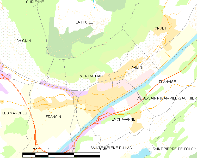 Map of French municipality